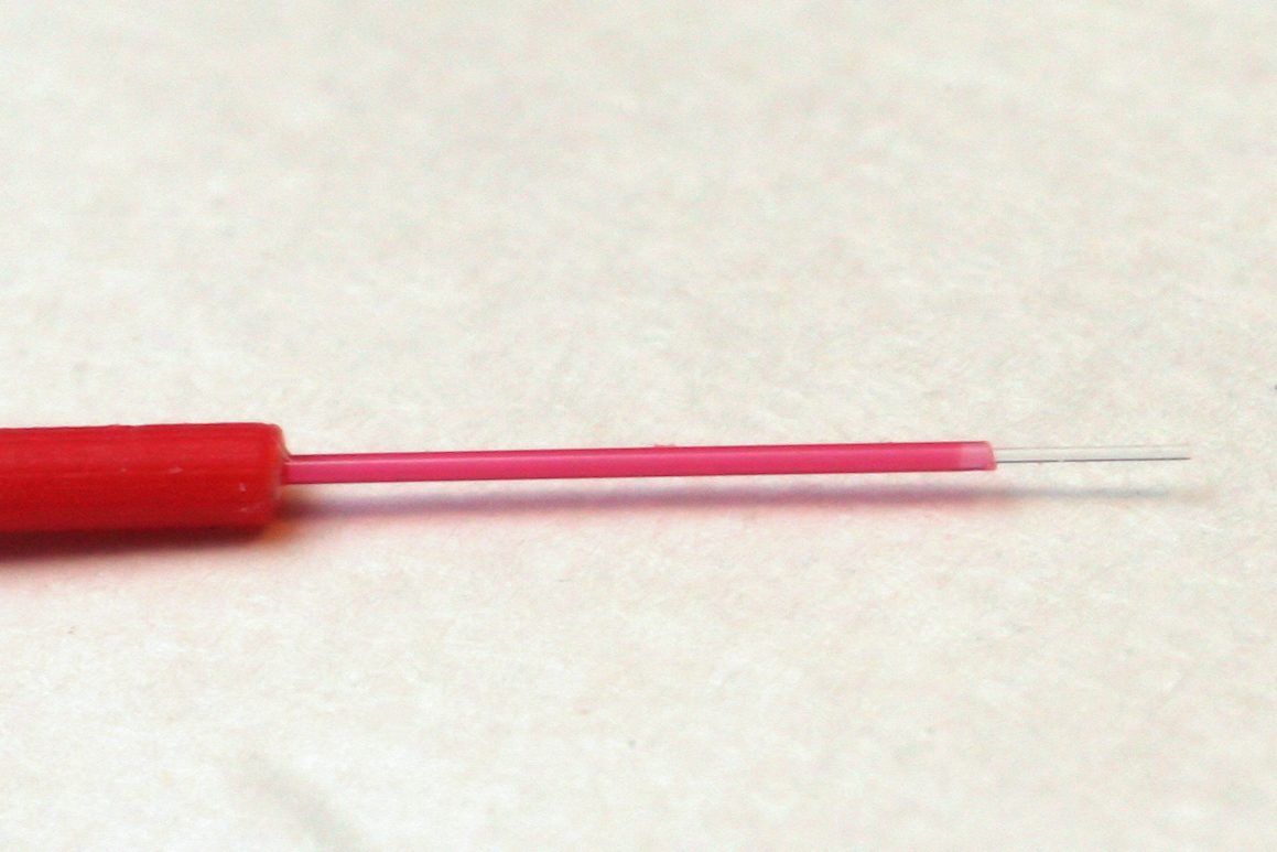 Single-mode optical fiber, stripped